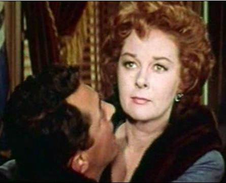 Screenshot of Susan Hayward from the trailer for the film Ada